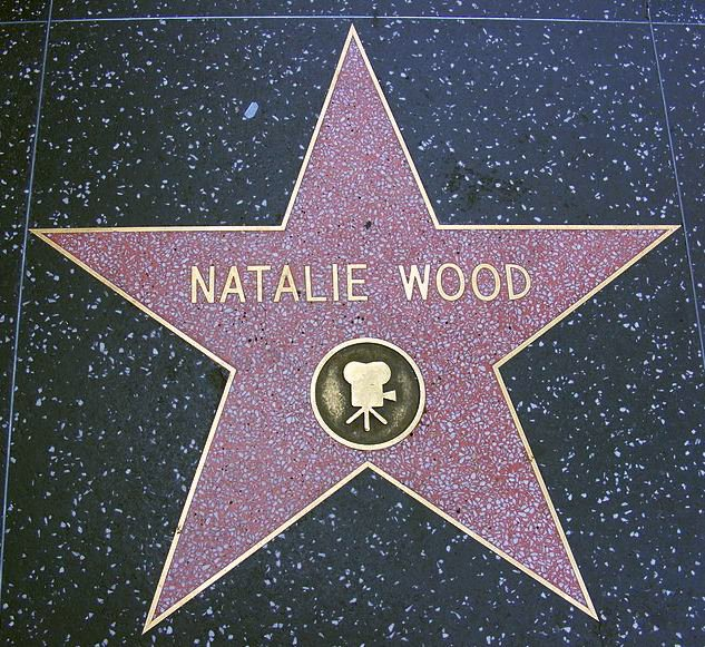 Natalie Wood's Star on the Hollywood Walk of Fame